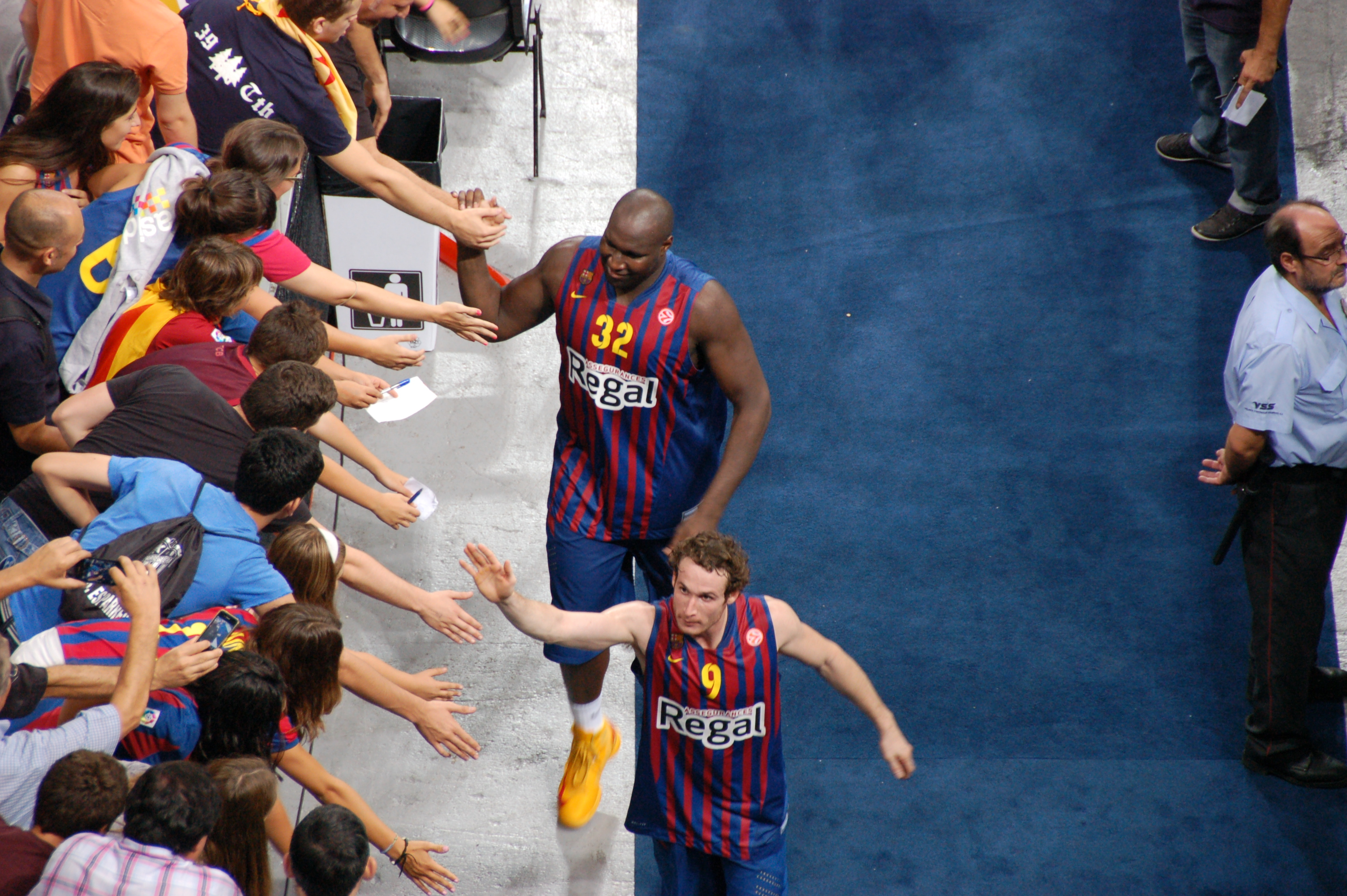 Nathan Jawai and Marcelinho Huertas